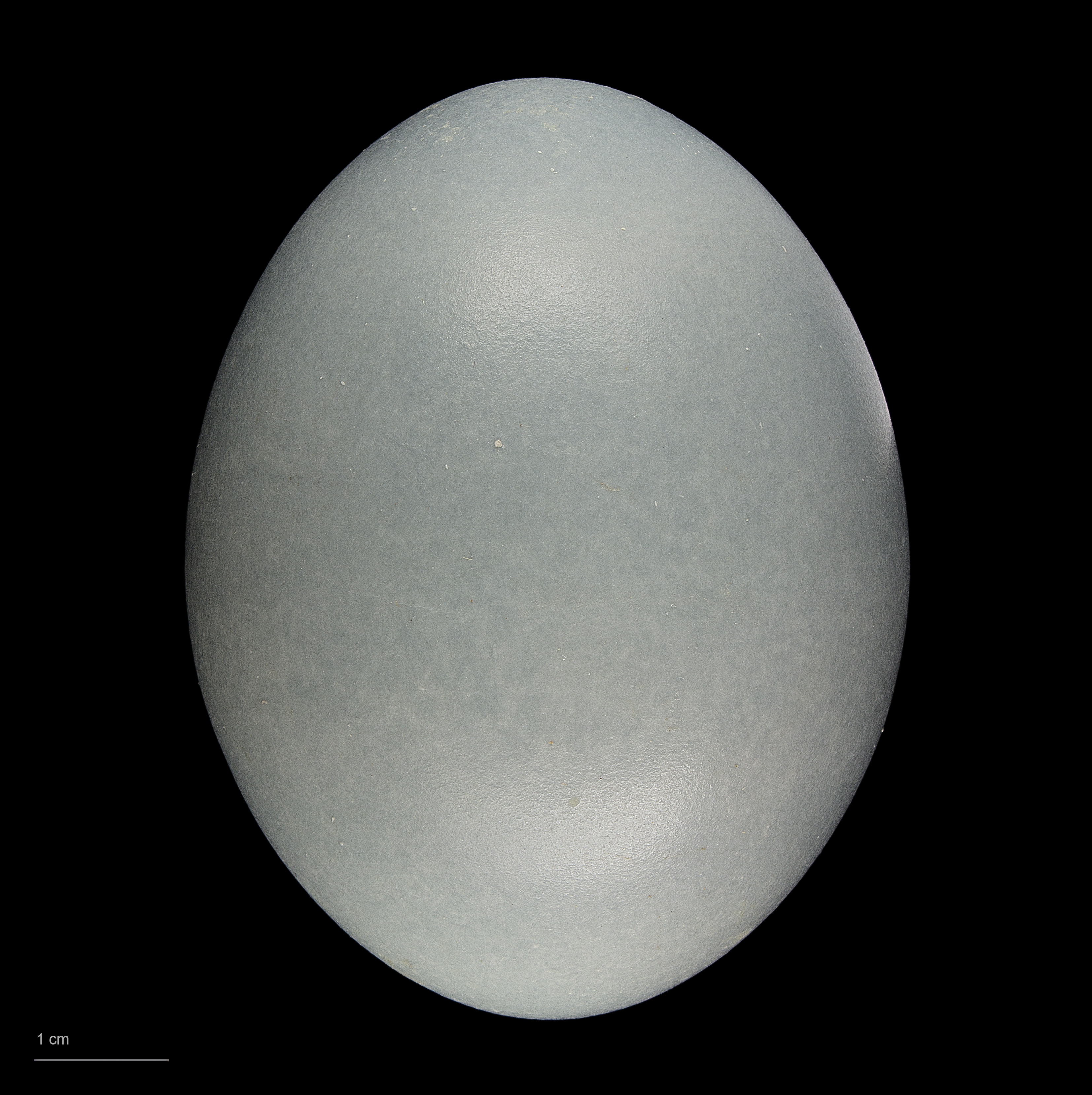 Egg of solitary tinamou Collection of Jacques Perrin de Brichambaut.